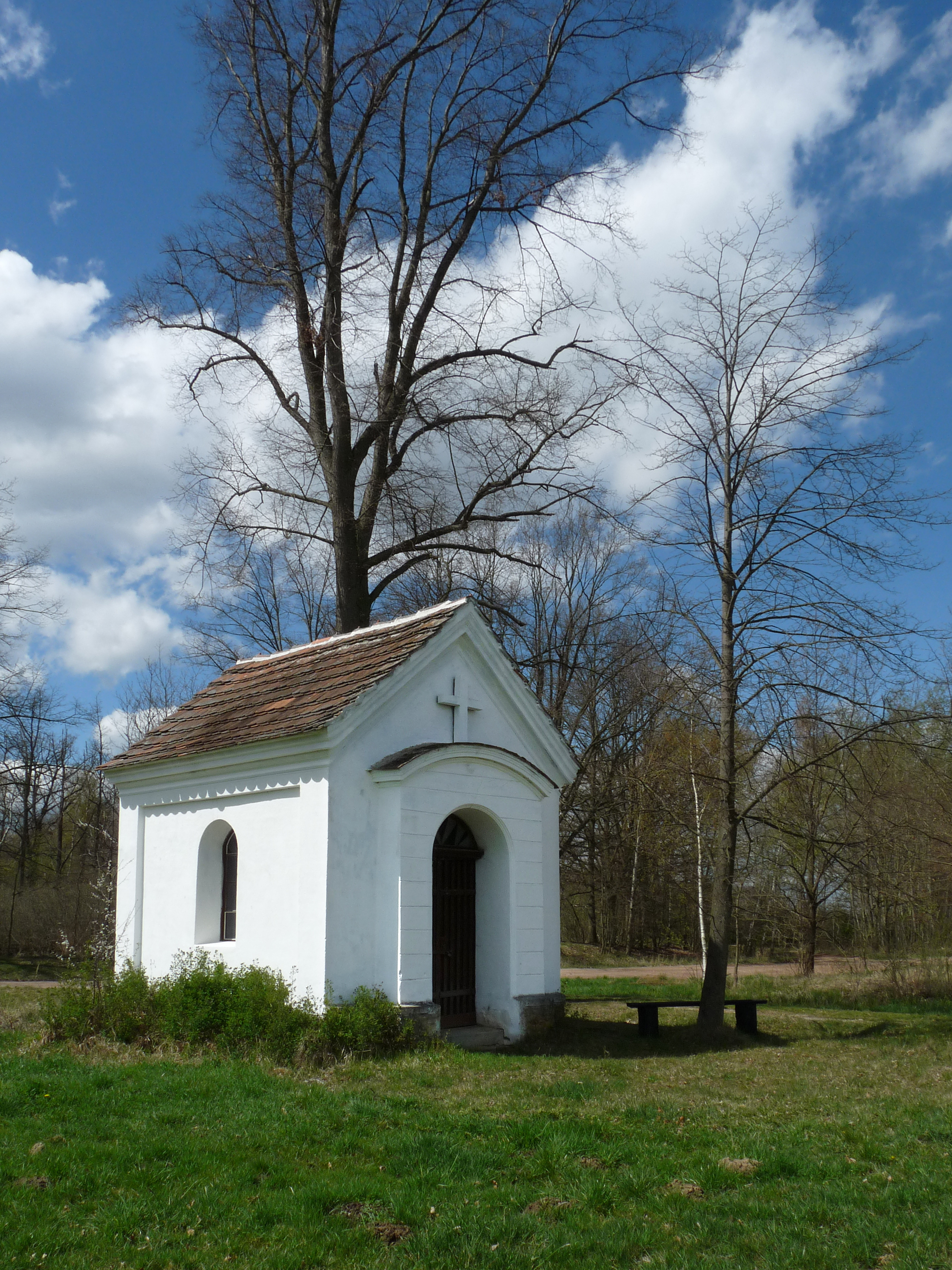 Chapel at a house called Hluchá bašta in Branišov, České Budějovice, Czech Republic.